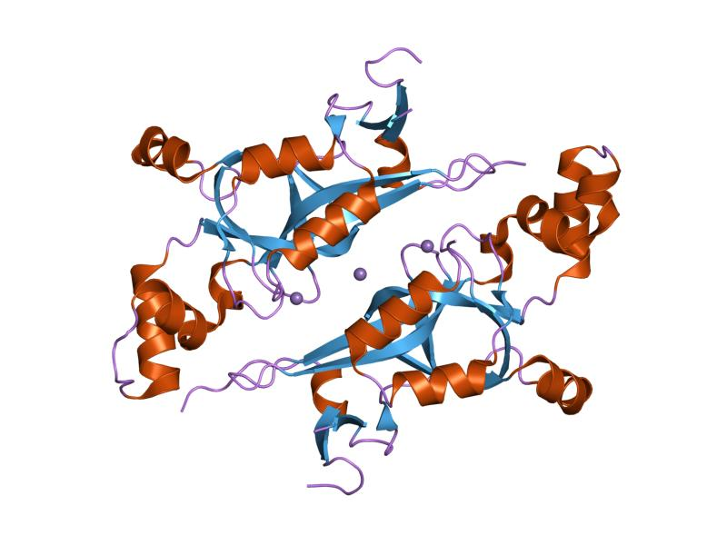 Cartoon representation of the molecular structure of protein registered with 1m4z code.